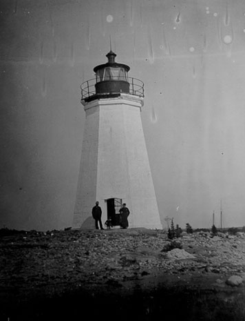 Black Rock Harbor Light in Bridgeport, Connecticut.